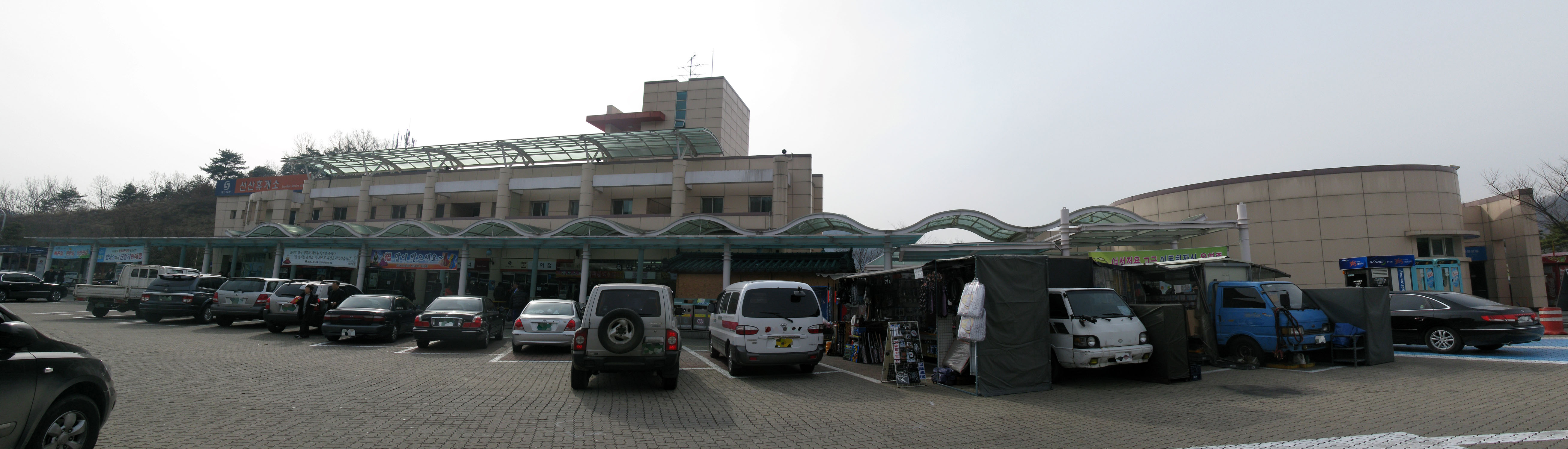 Jungbu Naeryuk Expressway Seonsan Service Area (To Masan)